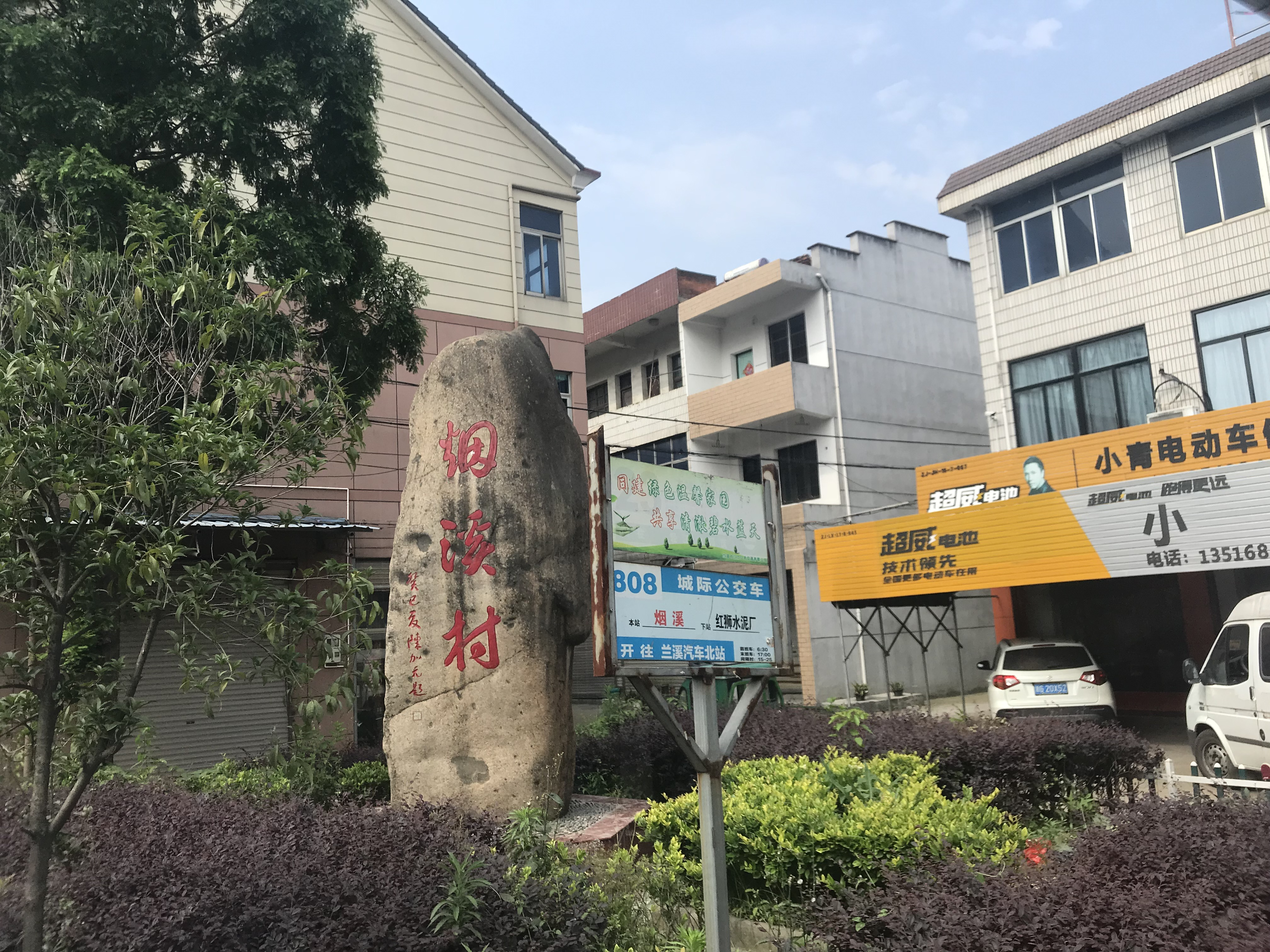 201805 Yanxi Village, located on the Lanxi side of the city border, the correspondent village in the Jinhua side is Shíchuān （栅川）